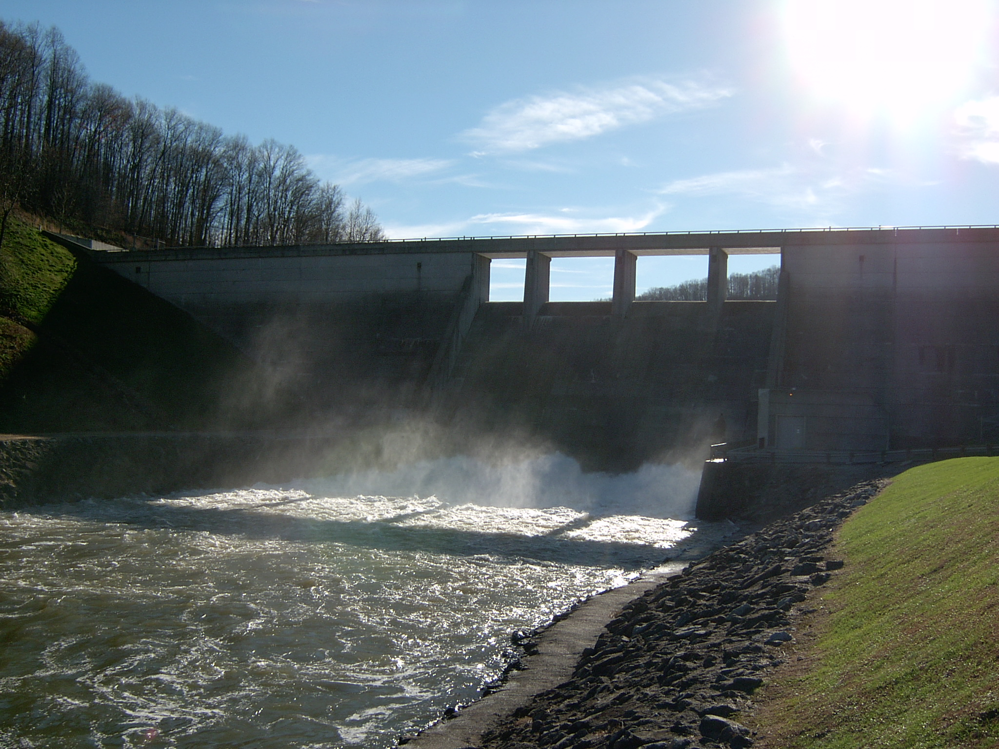 Stonewall Jackson Lake on the West Fork River upstream of Weston, West Virginia. Photo taken on November 21, 2003 by Brian M. Powell.